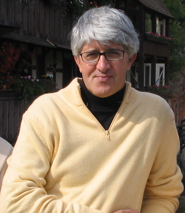 Italian author Beppe Severgnini. The picture was taken in Nuremberg, Germany.